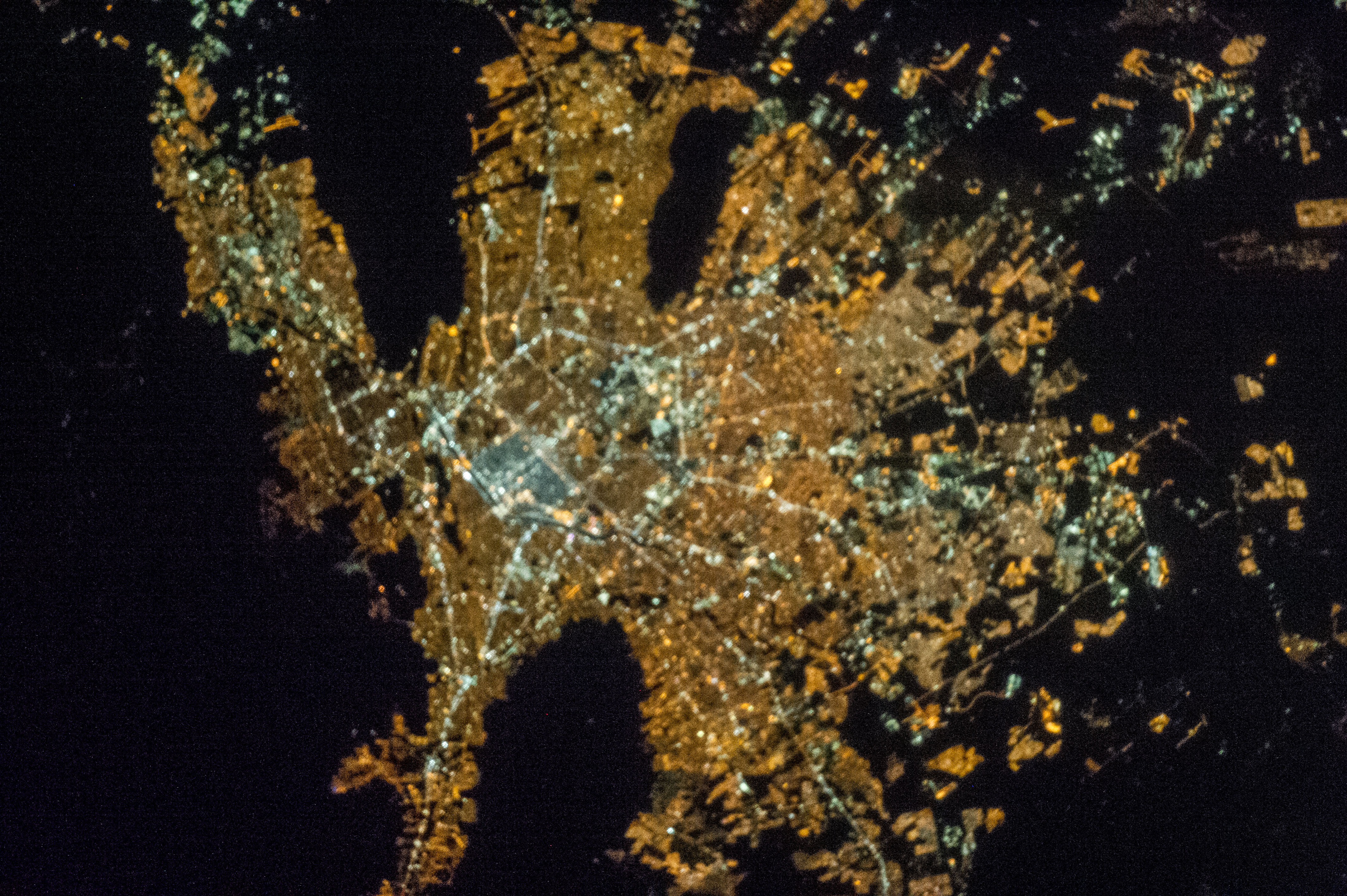 One of the Expedition 35 crew members aboard the Earth-orbiting International Space Station photographed this night image of Monterrey, Mexico on April 15, 2013. The spacecraft was orbiting approximately 216 miles above a point centered at 27.0 degrees north latitude and 103.2 degrees west longitude.